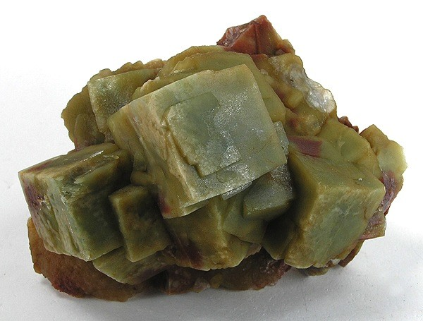 Mozartite, Apophyllite-(KF) Locality: Jalgaon District, Maharashtra, India (Locality at ) There are some really fine Indian specimens in this set of auctions. This is one you do not see too often: opaque "yellow-umber" apophyllite to 3 cm on edge. The color is due to inclusions and the mineral doing the including is a rare species called mozartite. 12.5 x 8.5 x 7.4 cm